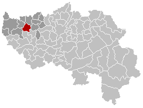 Map, municipality belgium Faimes